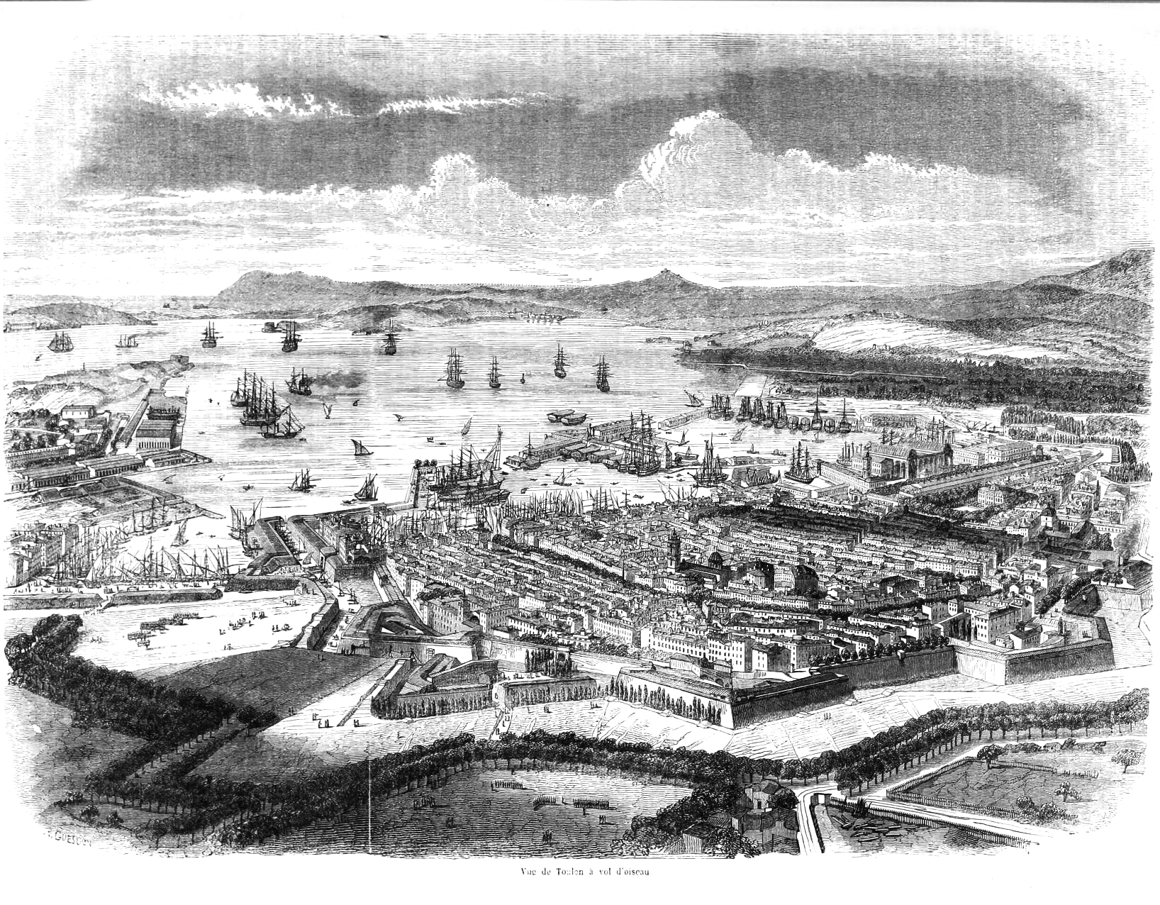 View of Toulon, France